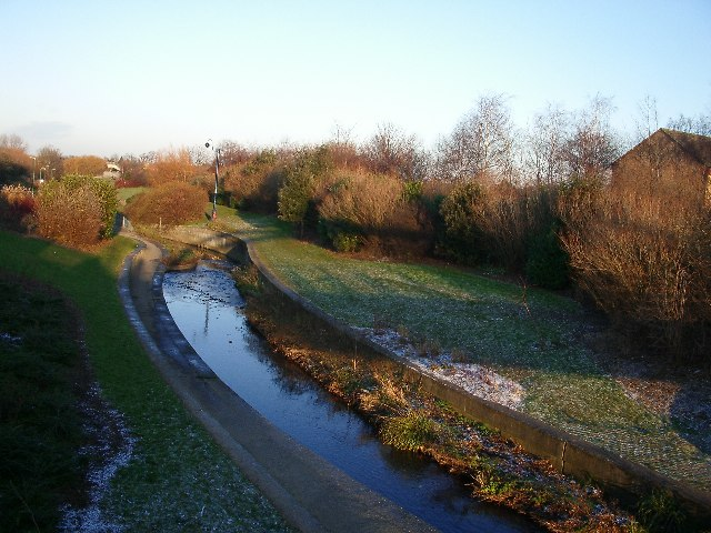 Pool River and National Cycle Route 21. Pool River joins the Ravensbourne at Catford which in turn joins the Thames at Deptford. The Pool and Ravensbourne provide a linear walking and cycle path (National Cycle Route 21) through this part of south-east London. Here is the Pool River, looking north from a footbridge at Bell Green SE6 with the path on the left.